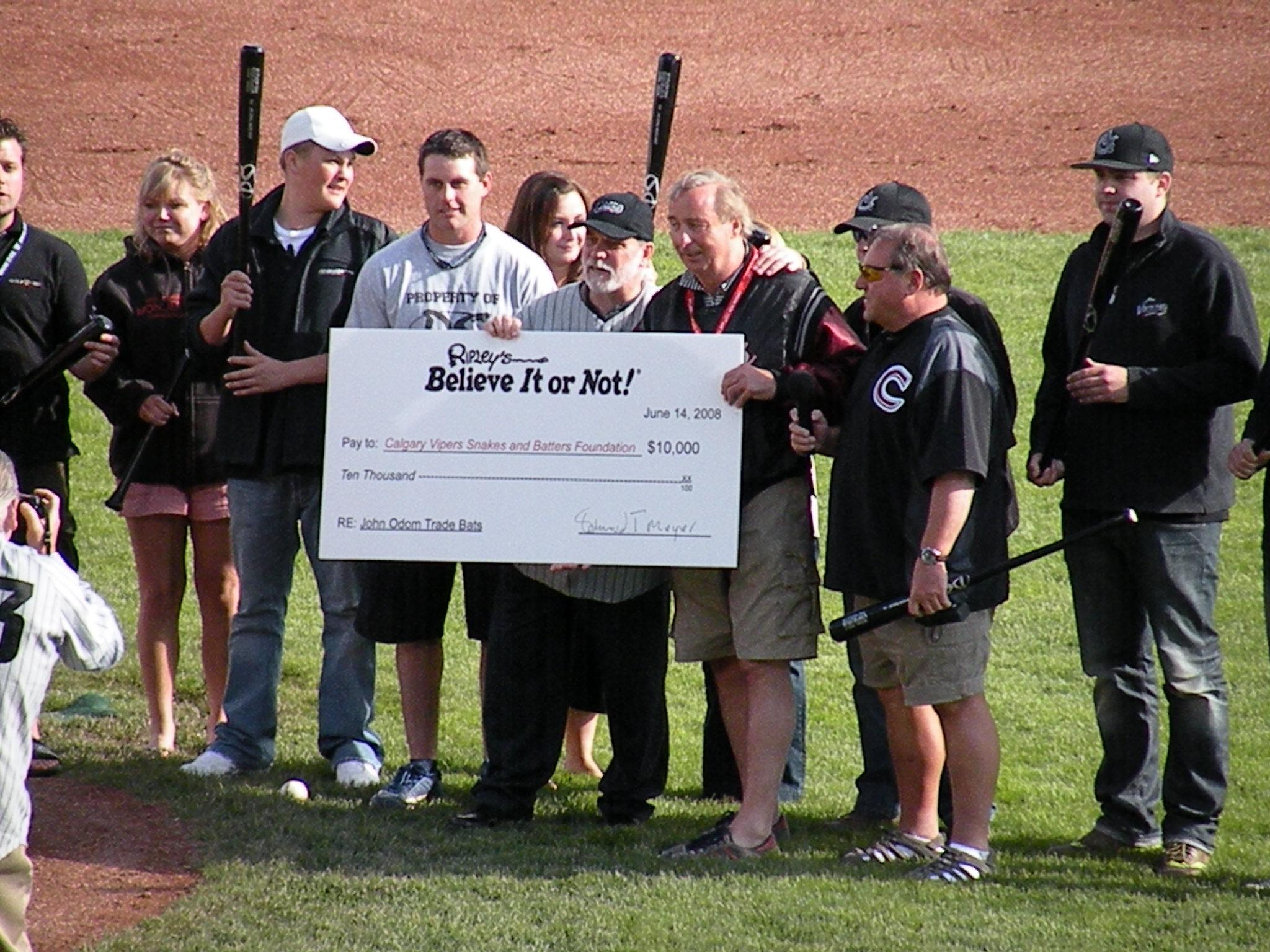 Representatives of Ripley's Believe It or Not! and the Calgary Vipers during a checque presentation after Ripley's purchased ten baseball bats acquired by the Vipers in a trade, June 14, 2008.